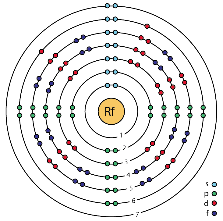 enhanced Bohr model with subshells